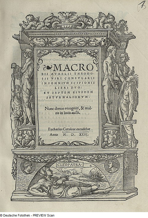 Original image description from the Deutsche Fotothek Astronomie & Statue